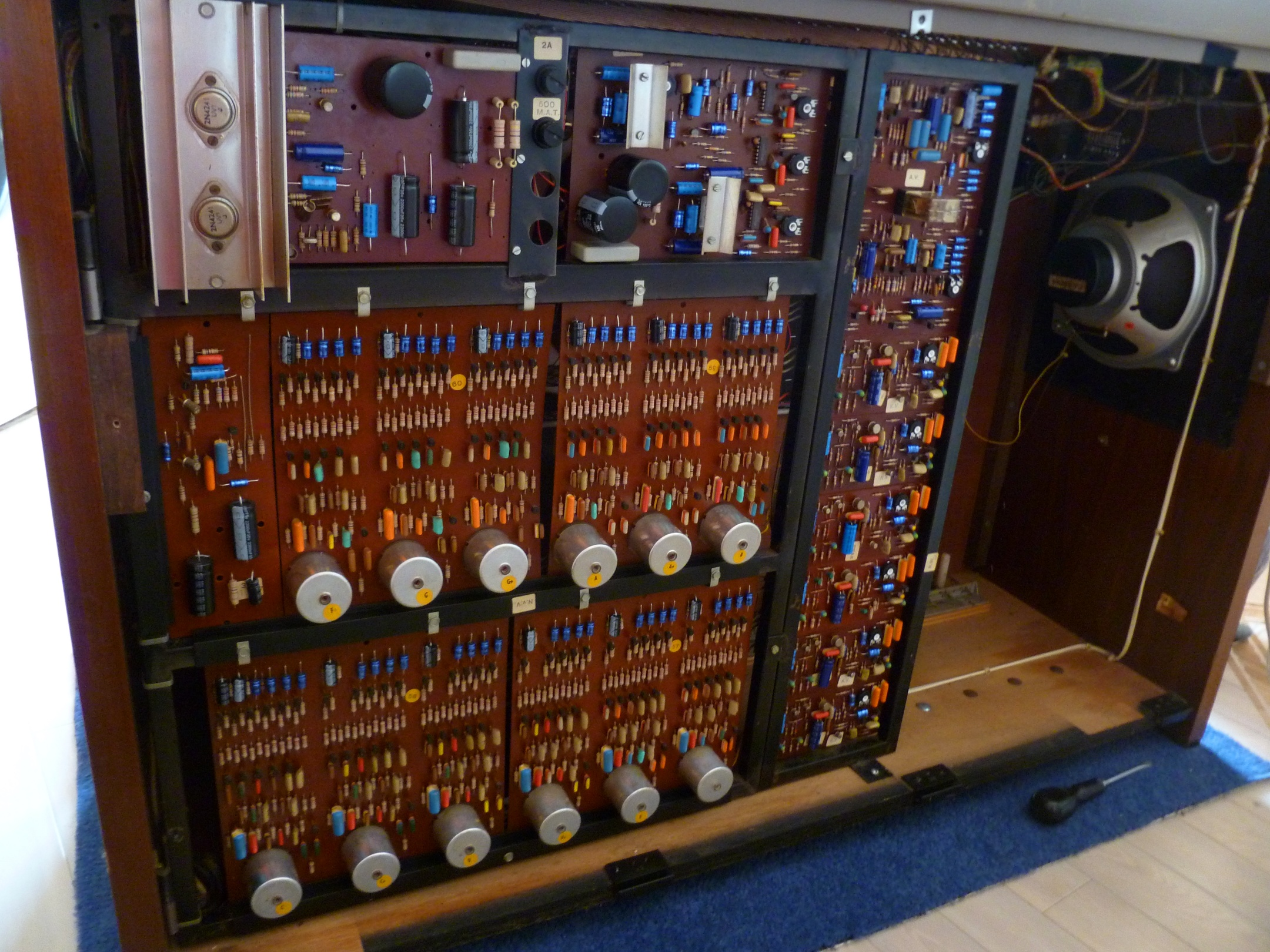 Oscillators and technics of the dutch 1970s and 1980s Eminent 310 Unique electrical synthesizer organ.